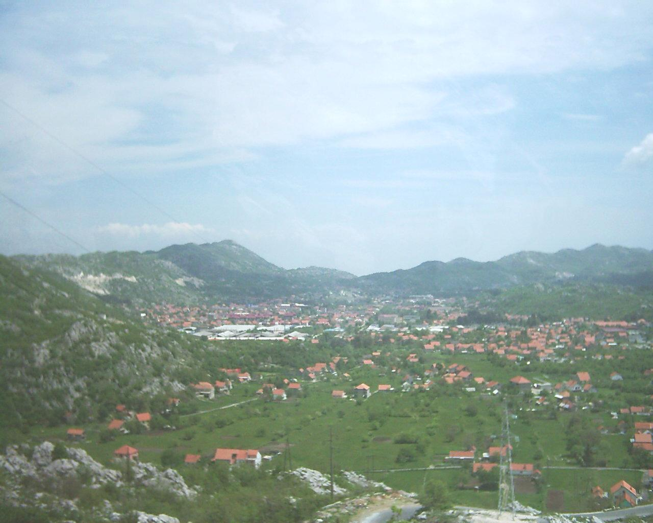 General view of the city of Cetinje.